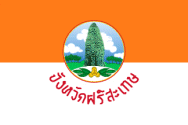 The flag of Sisaket Province